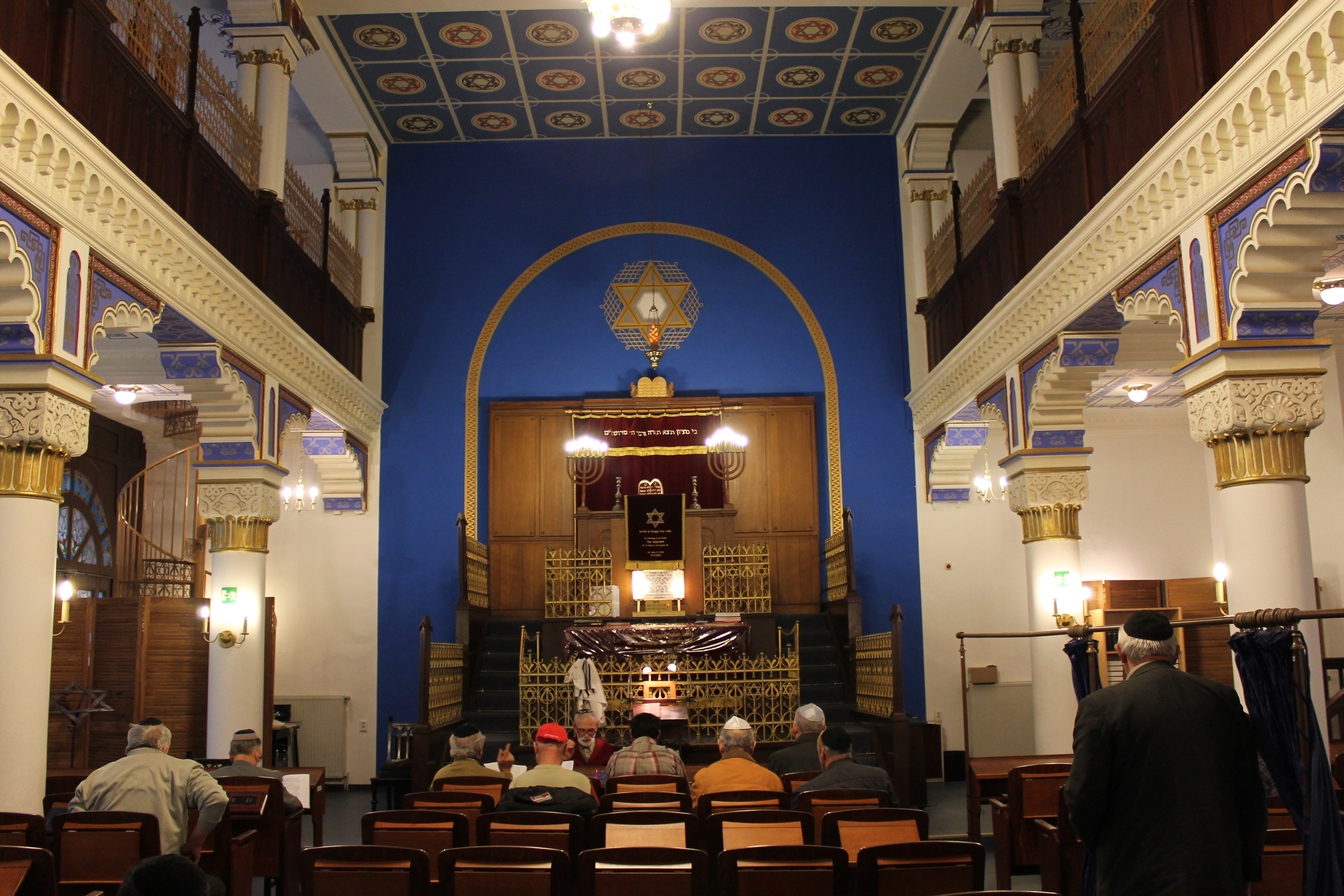 Leipzig Synagogue before afternoon prayer.